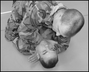 US Army Combatives School founder Matt Larsen demonstrating a sleeve choke from US Army Field Manual 3-25.150 Combatives (2002).